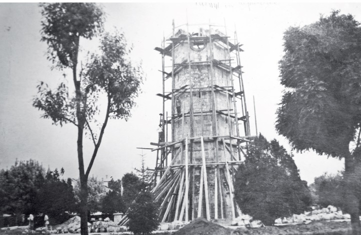 Watchtower Destroyed after WW1